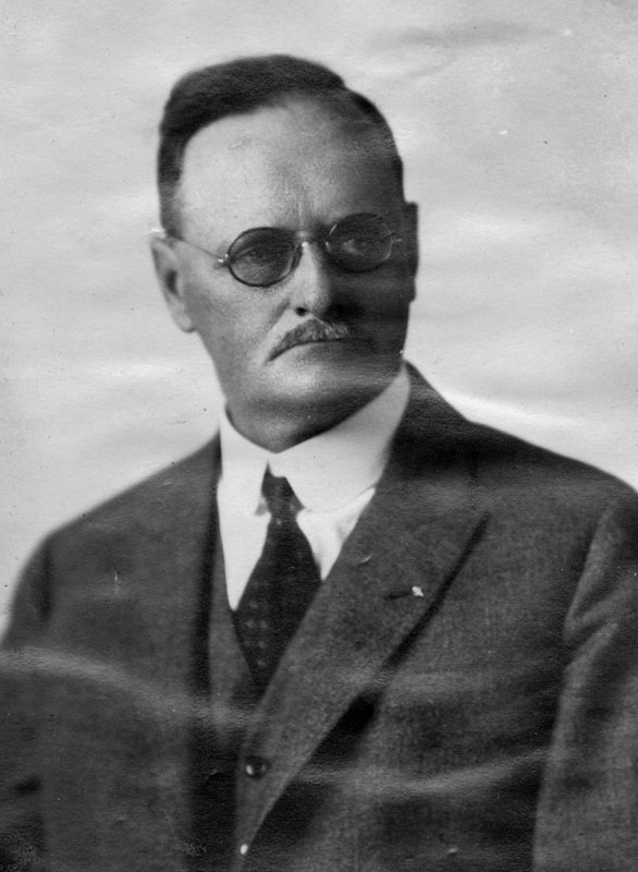 Portrait of Frederic T. Woodman, Mayor of Los Angeles from 1916-1919.